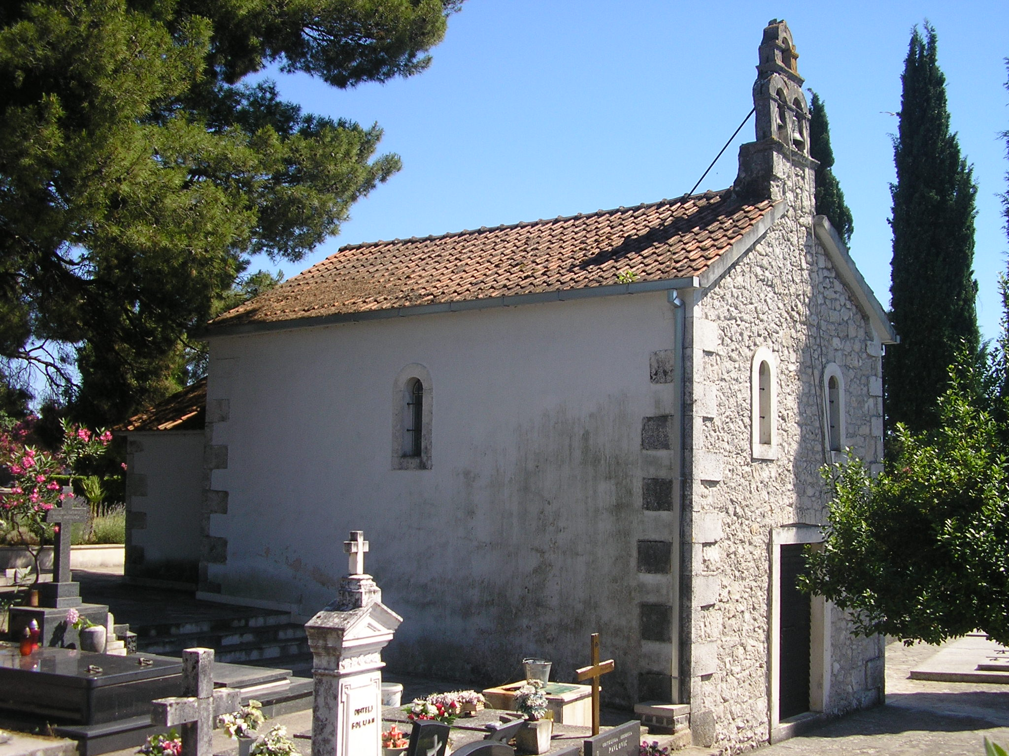 Saint John of Nepomuk church in Metković